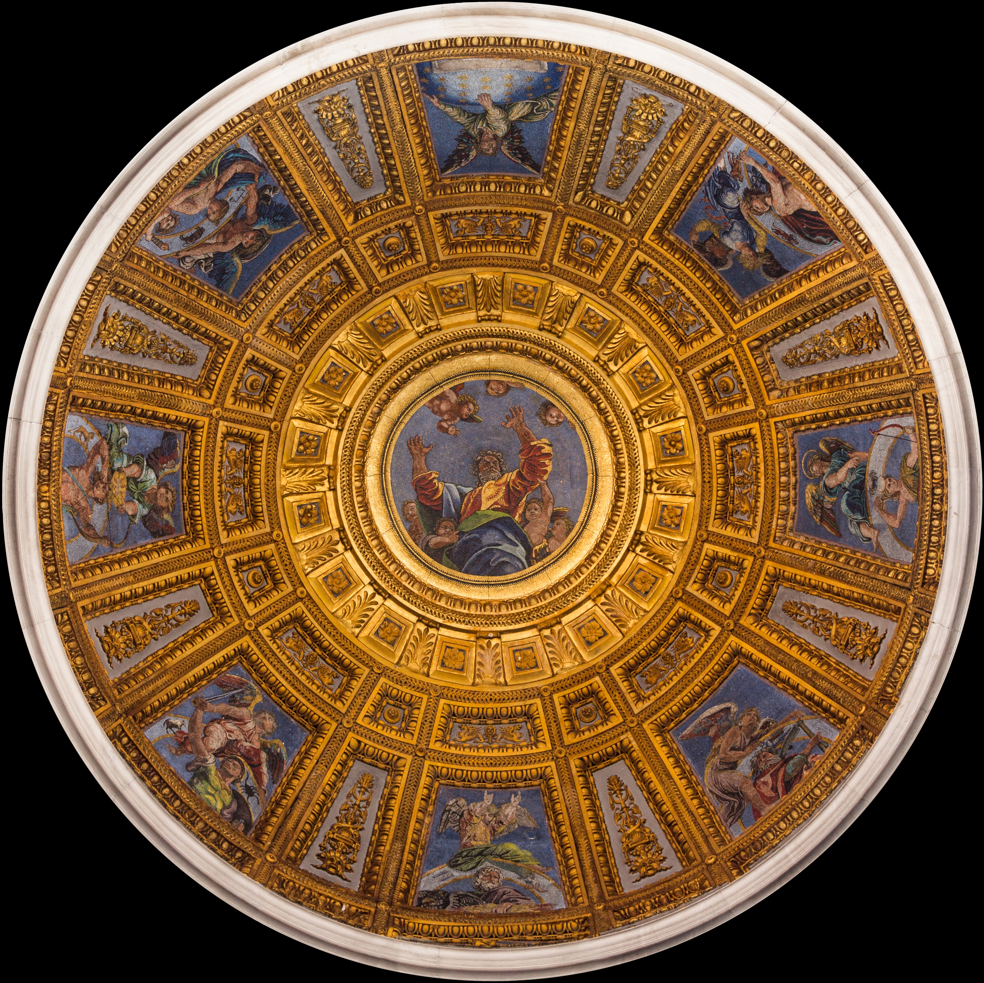 The mosaics of the dome of the Cappella Chigi, by Luigi da Pace (1516) after cartoons by Raphaël, church Santa Maria del Popolo, Rome, Italy. Unique mosaics due to Raphaël.